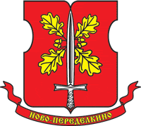 Novo-Peredelkino coat of arms (1998).